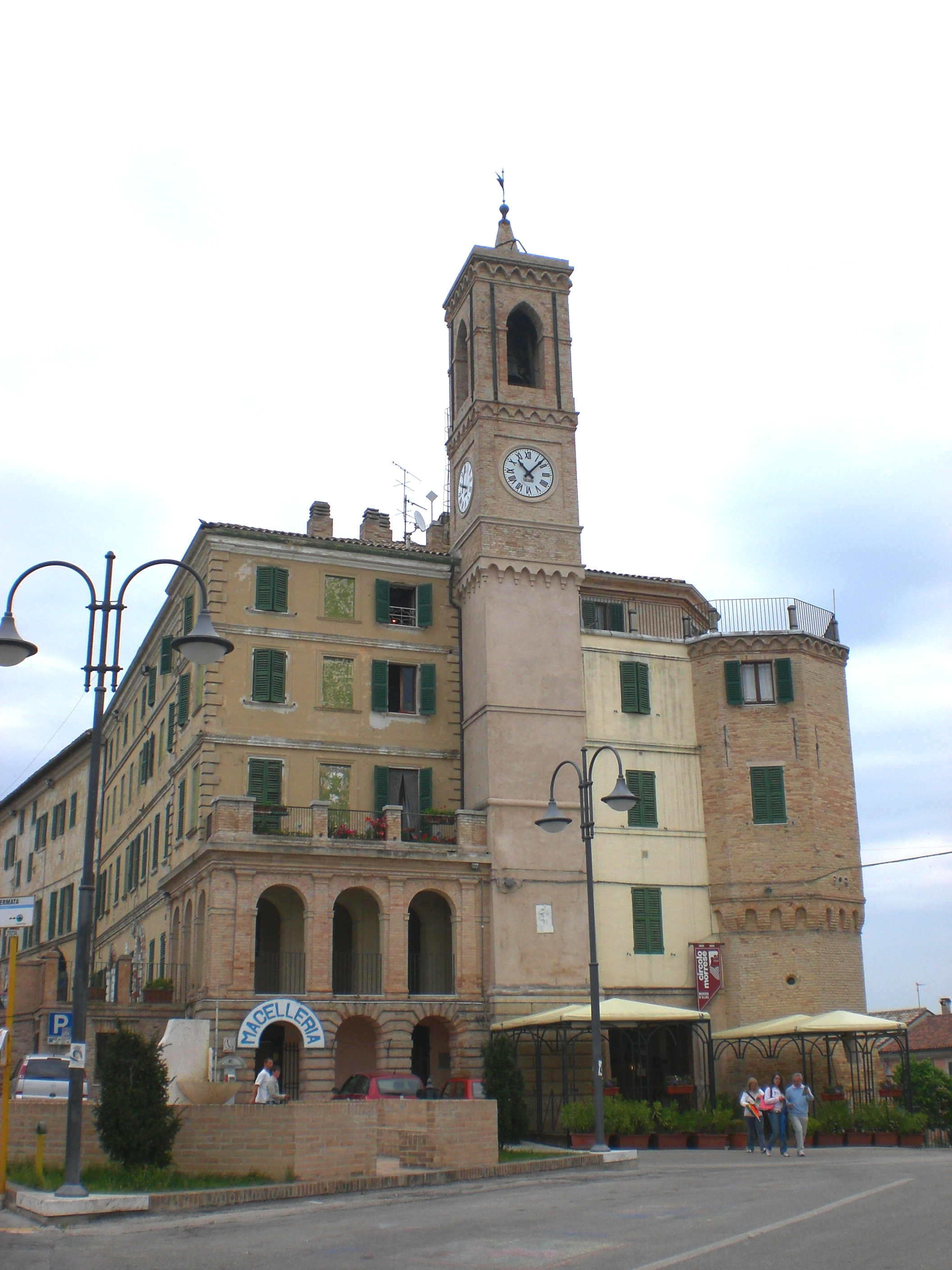 Morro d'Alba, Town Hall